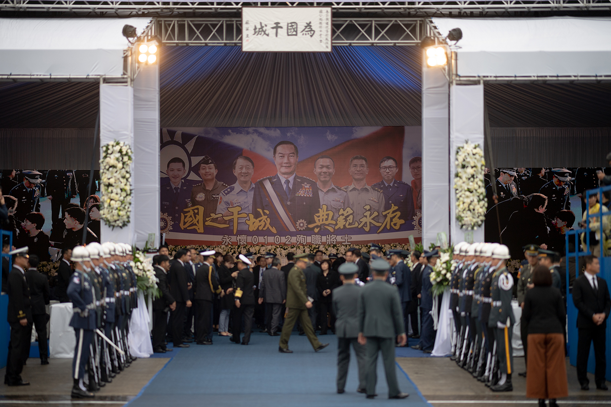 Official Photo by Makoto Lin / Office of the President